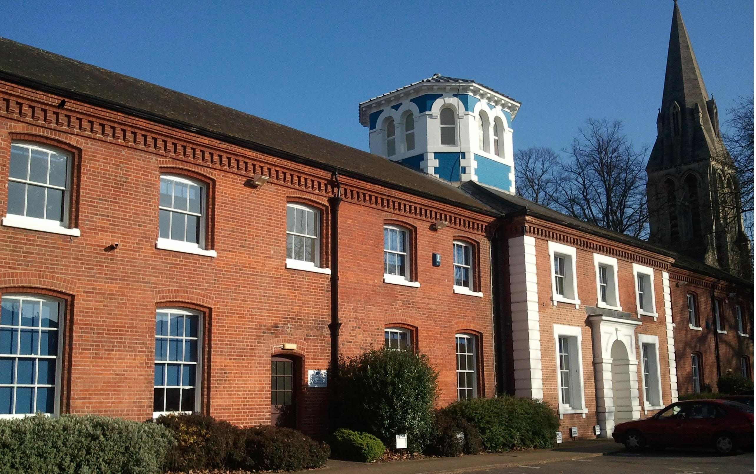 The (eastern) Old Victorian workhouse frontage of City College Southampton dating back to 1866